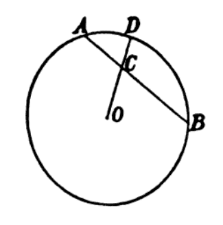 Hermann Grassman's color circle illustration of Grassman's law of color combination